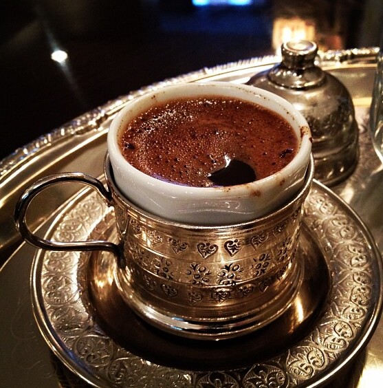 A cup of turkish coffee